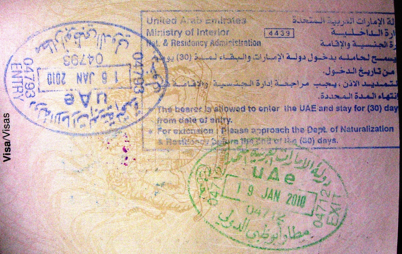 passport stamps from abu dhabi international airport